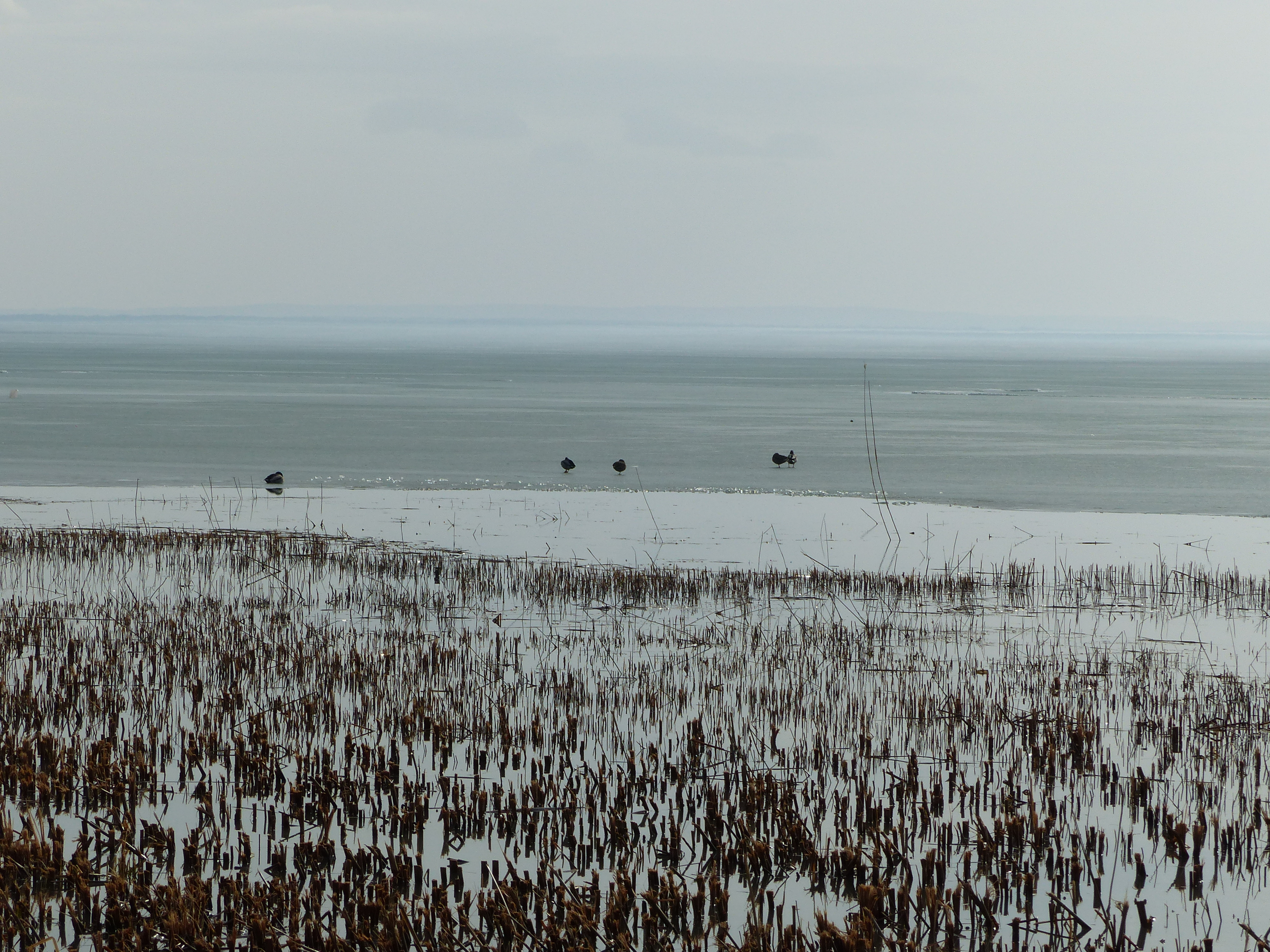 Ice Melting on Lake Balaton. Taken on the 27th of February, 2017. Alsórét, Balatonkenese, Hungary. After cane cutting.